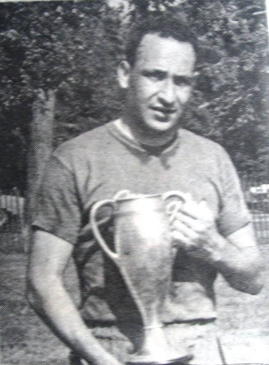 Amir Masoud Boroumand winning the Tehran City Tournament with Shahin F.C. in 1958